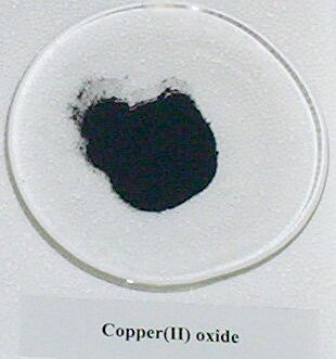 Sample of copper(II) oxide